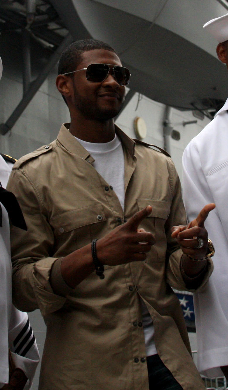 Hip-Hop and R&B singer Usher signs autographs for Sailors aboard the amphibious assault ship USS Kearsarge (LHD 3) during Fleet Week 2008 in New York.